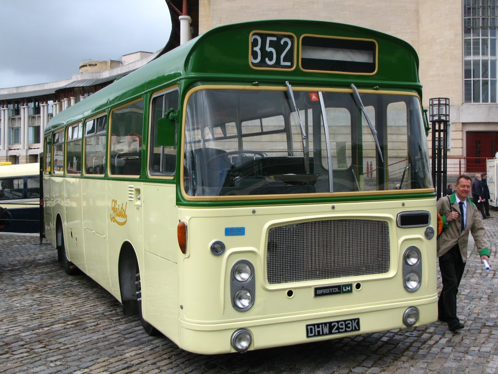 Bristol Omnibus 353 (DHW 293K) is one of the company's first batch of Bristol LH bus. It is preserved in its original 1972 livery of green with cream lower body to denote a 'one man operated' bus in which the driver would collect fares, rather than a conductor.